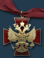 Russian Federation, Order Of Service To The Fatherland 3rd class. Established by Decree No. 442 of 2 March 1994. Amended by Decree No. 19 of 6 January 1999. Awarded for "outstanding contributions to the state, labour achievements and significant contributions to the defence of the State". Crossed golden swords are worn on the suspension when awarded for distinction in combat.